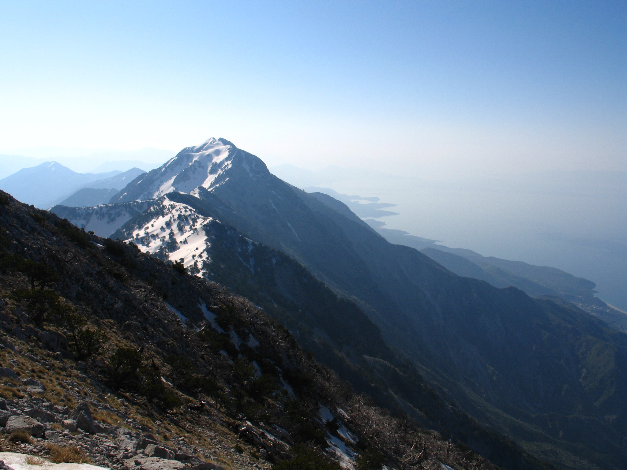 Maja e Çikës, in the Llogara National Park, Albania